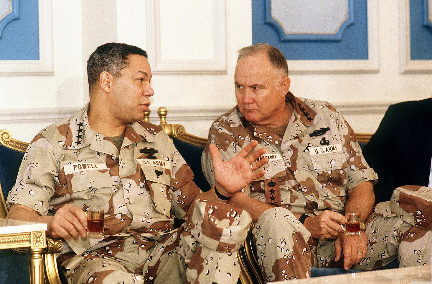 Colin Powell and Norman Schwarzkopf, in discusssion